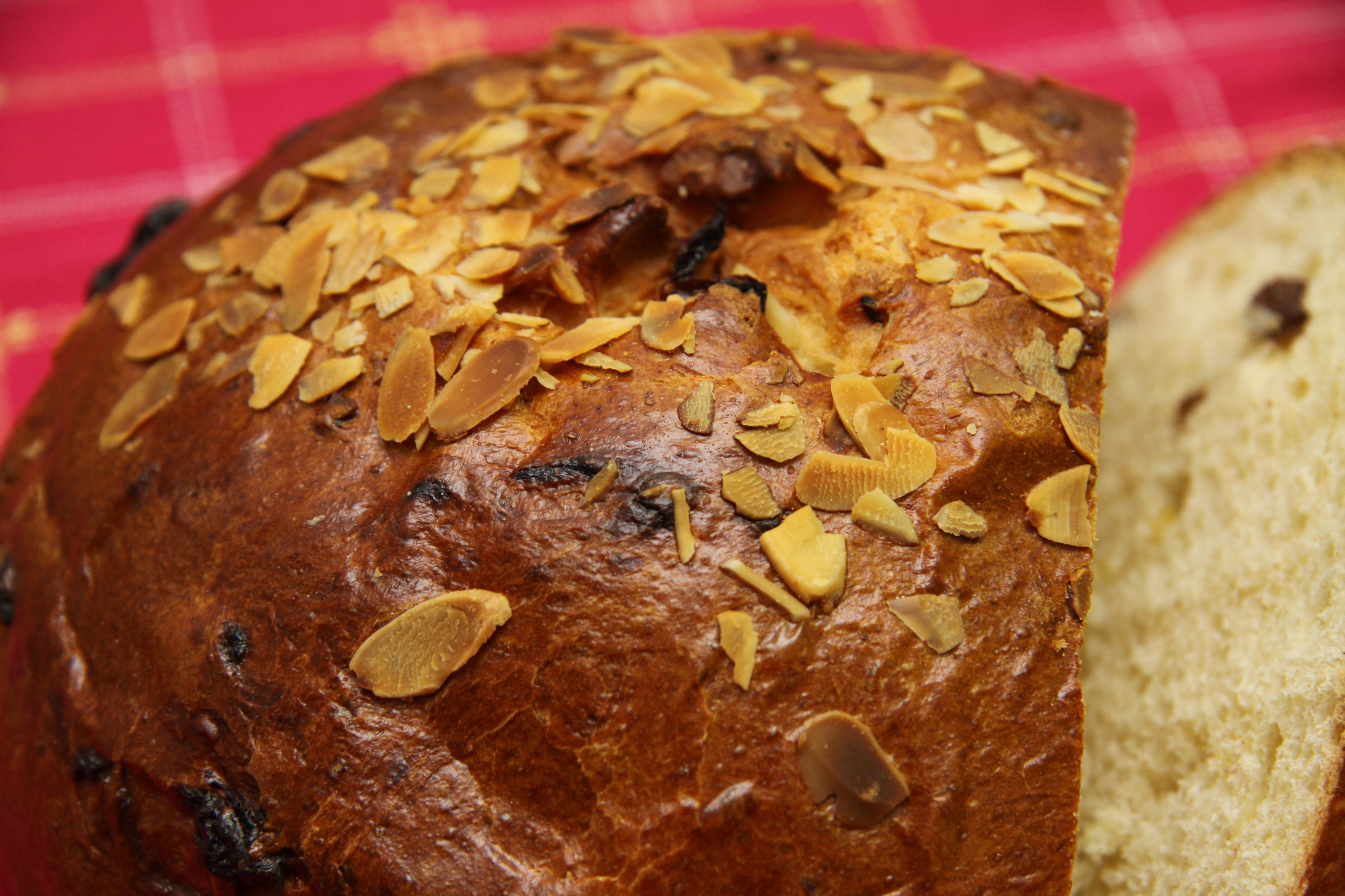 Mazanec - czech sweet bread, Czech Republic.